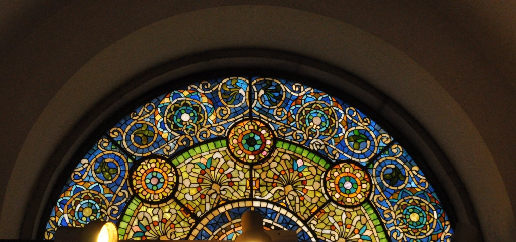 Tiffany-designed window in the study of the Frederick Ayer Mansion.